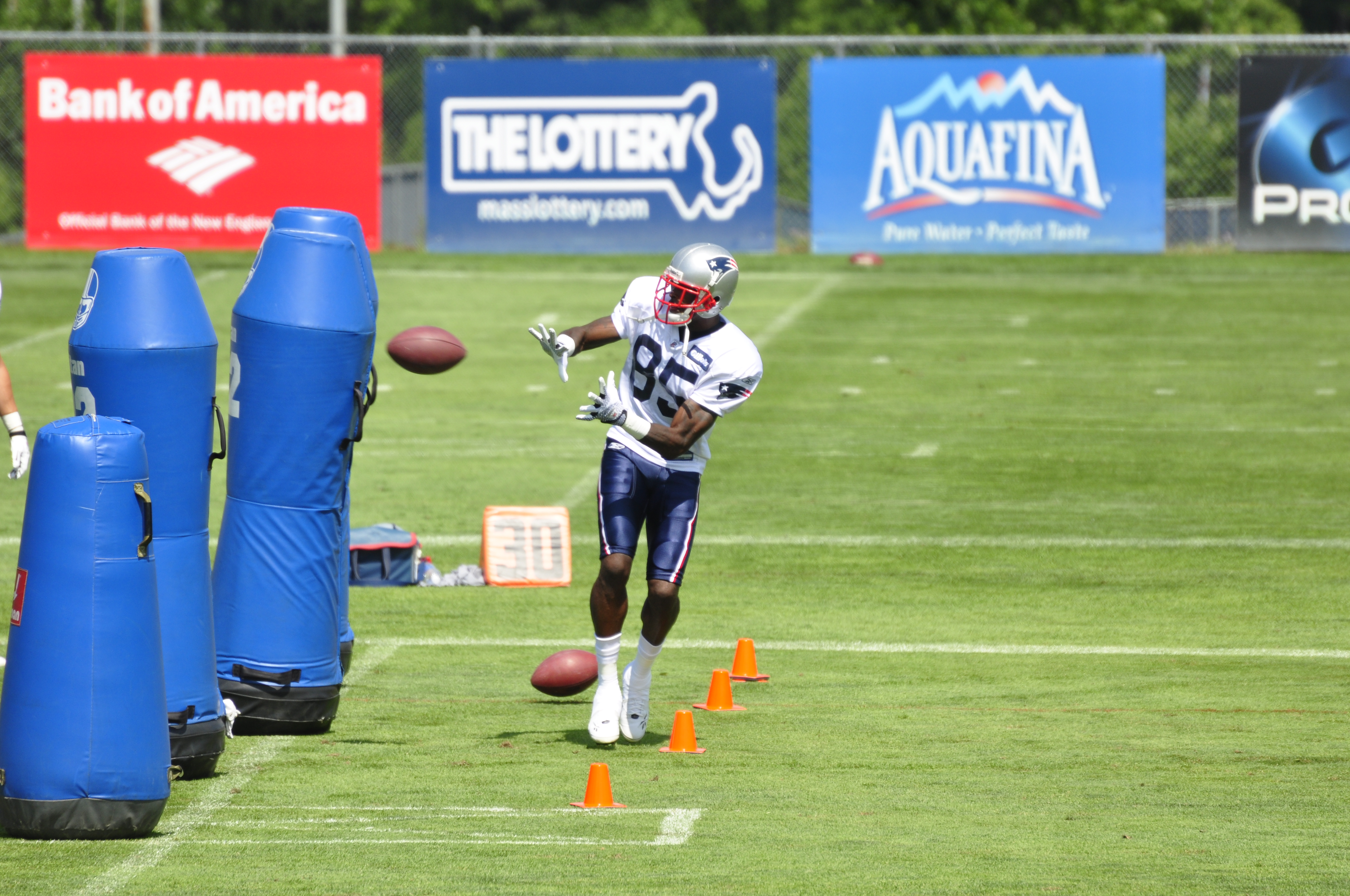 Chad Ochocinco praticed in 2011 New England Patriots training camp.